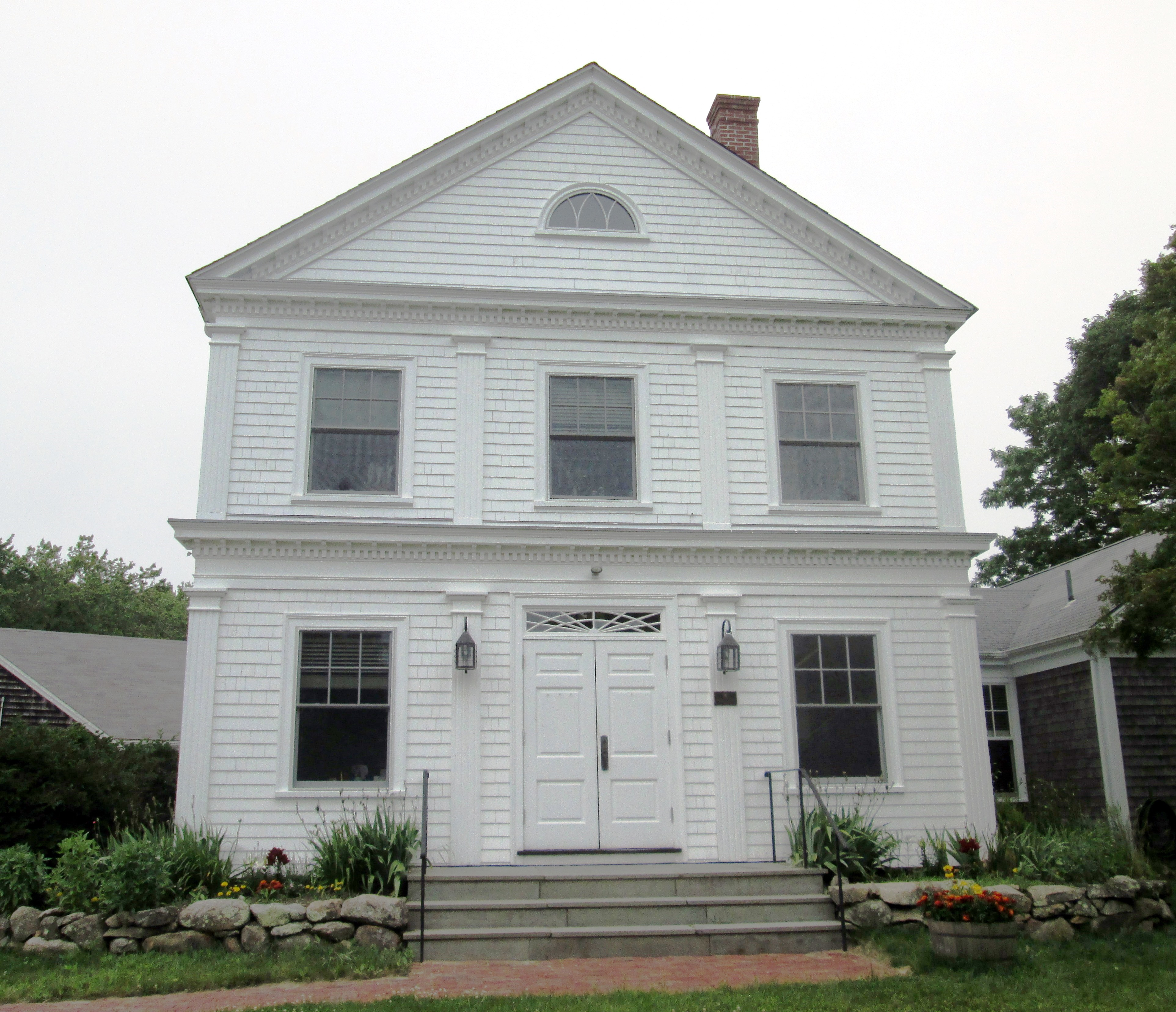 The Chilmark Town Hall is located at 401 Middle Road in Chilmark, on Martha's Vineyard, Massachusetts.